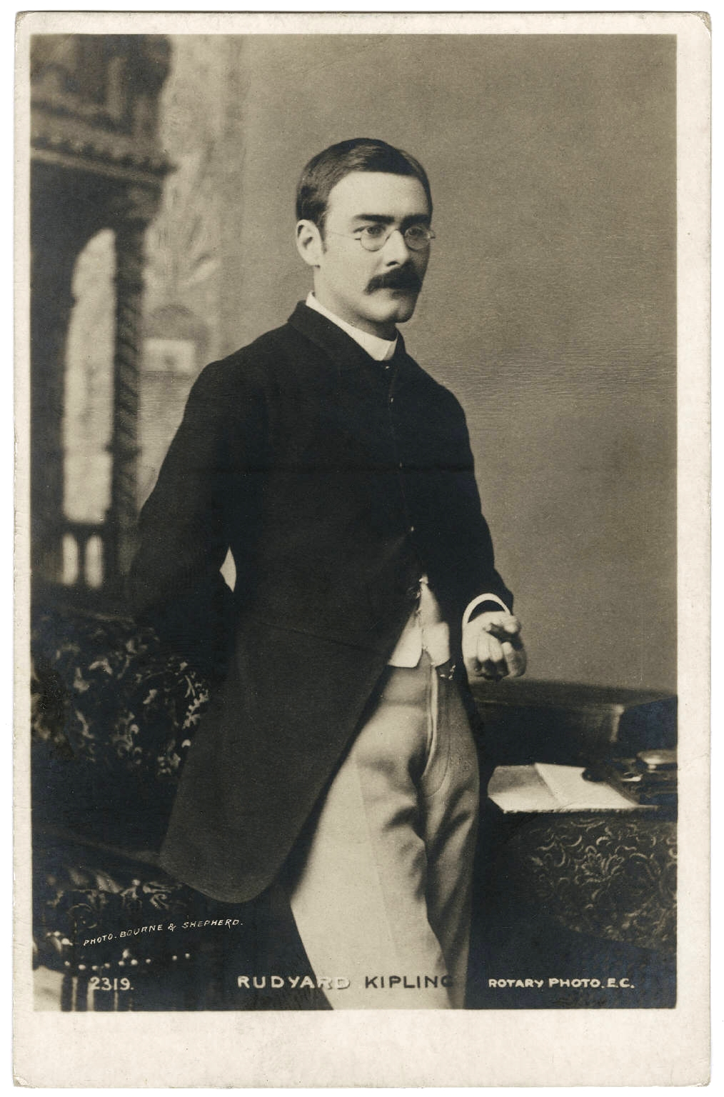 Three-quarter length portrait of Rudyard Kipling, photographic postcard, by Bourne & Shepherd. Image courtesy of the Beinecke Rare Book & Manuscript Library, Yale University.[1]